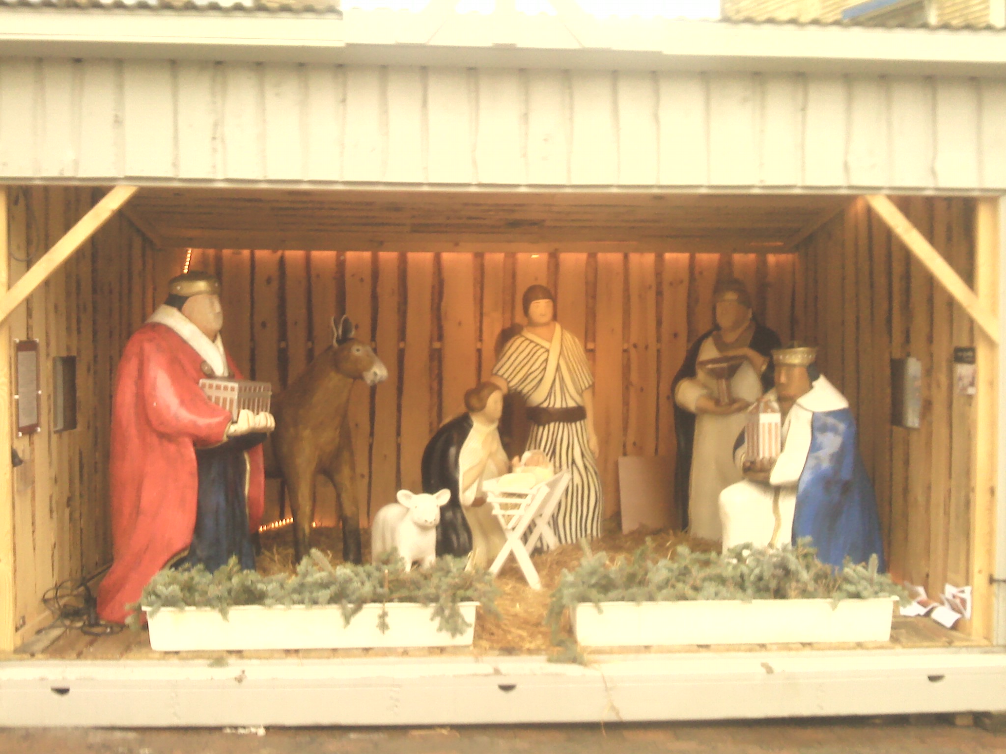 Jönköping Nativity Scene, Sweden 29 December 2012